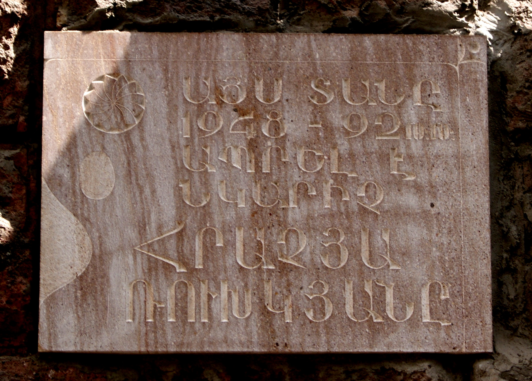 Hrachya Rukhkyan's plaque